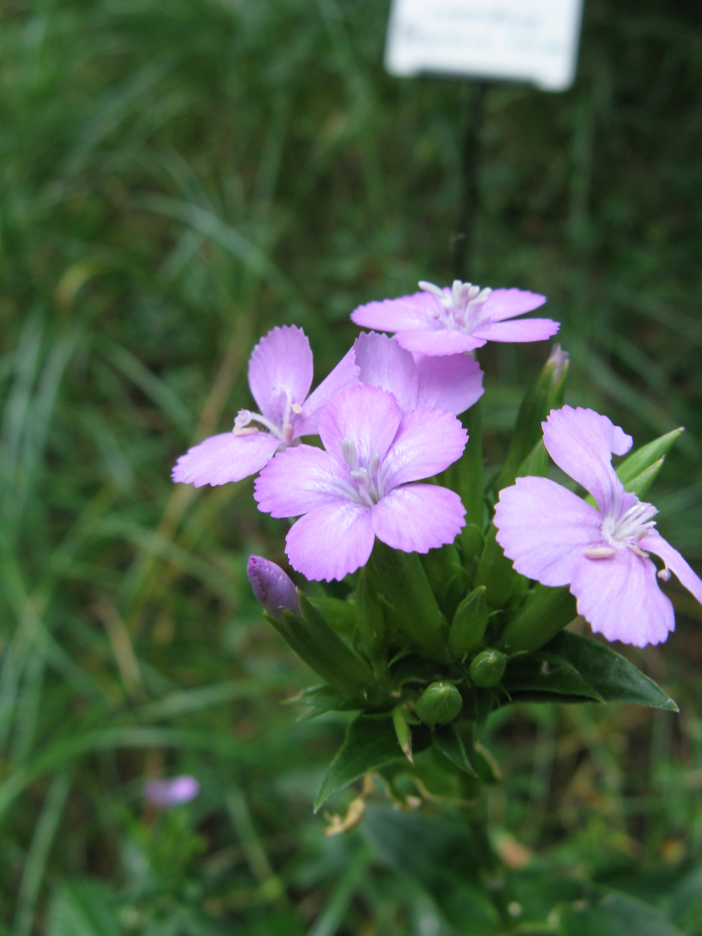 Scientific name Dianthus japonicus